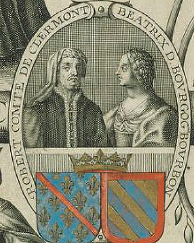 Robert de Clermont and Beatrix de Bourgogne